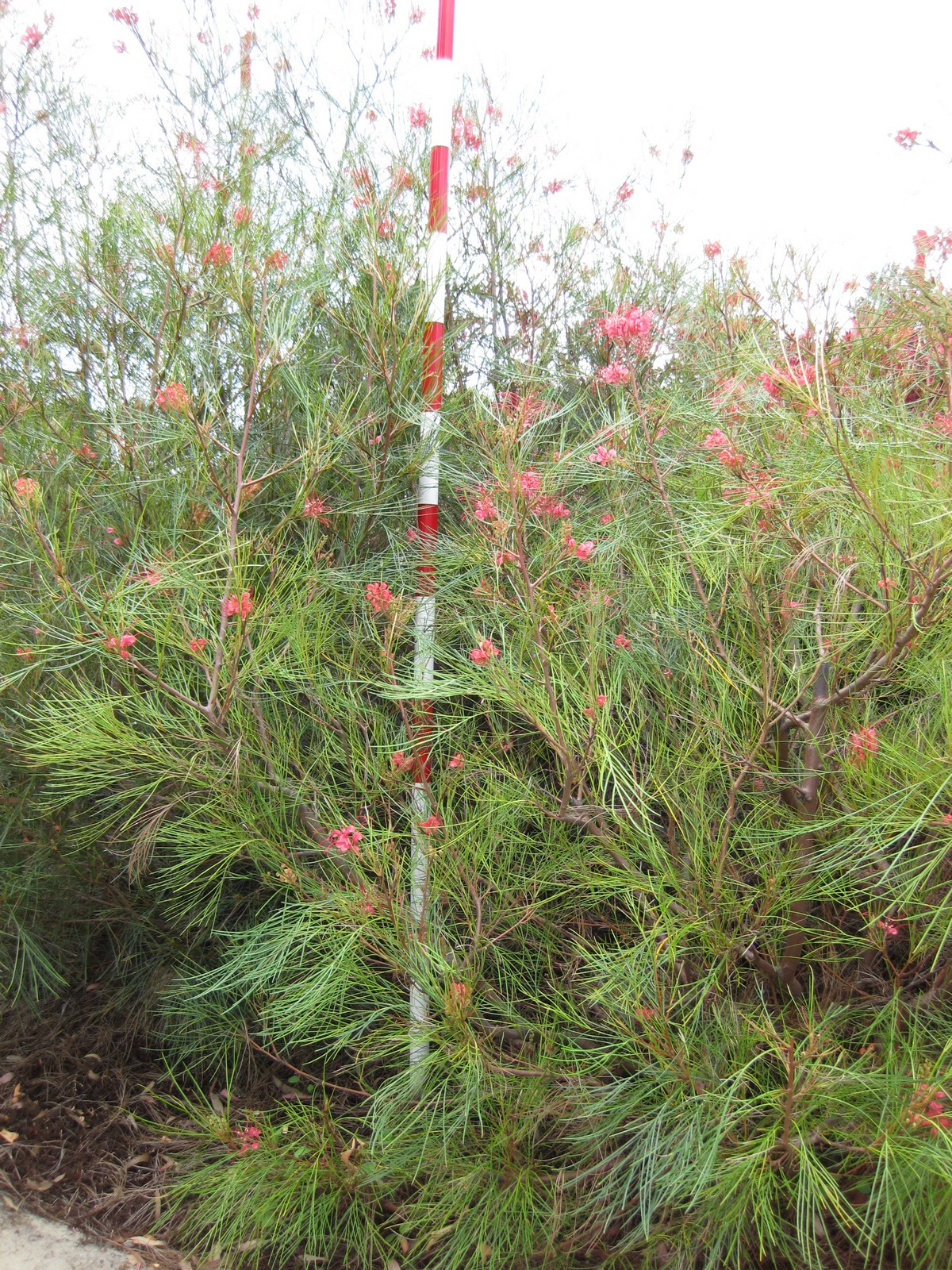 Photographed at Royal Botanic Gardens, Cranbourne (Melbourne, Australia) in December